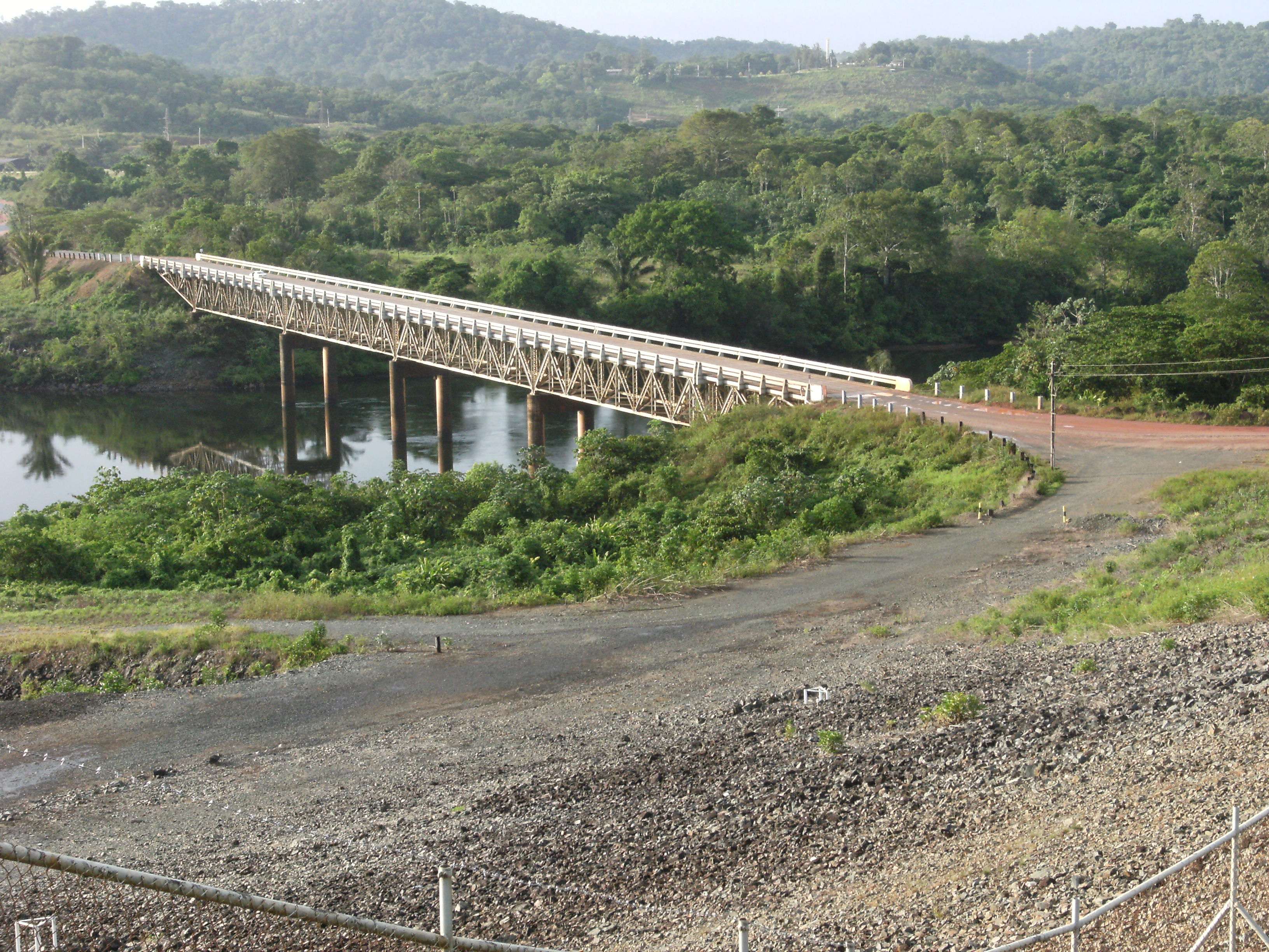 Bridge_over_Suriname_river_at_Afobaka_dam.JPG